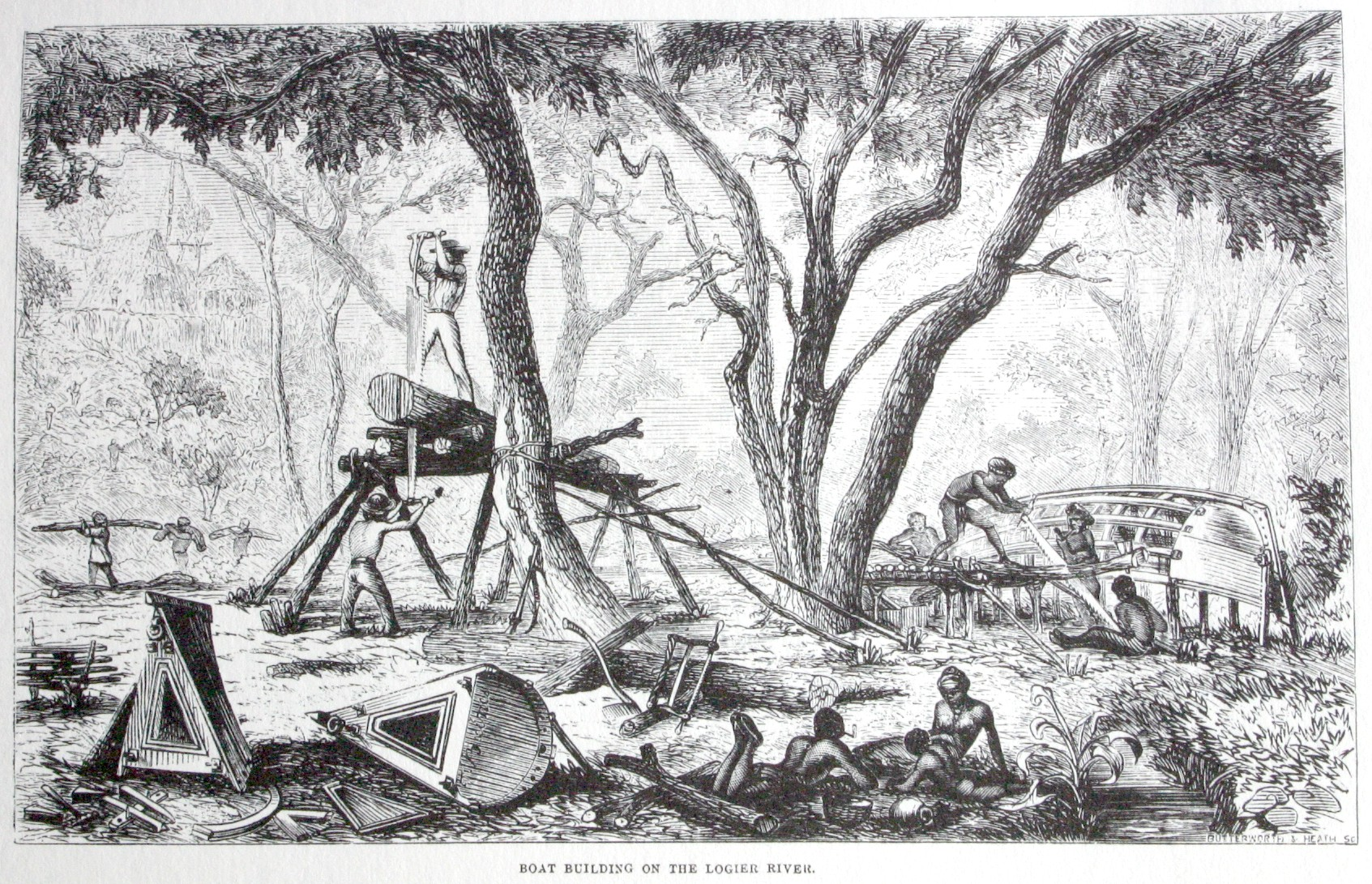 Engraving by Butterworth & Heath - Boat Building on the Logier River. Logier river on Baines'map is known to the natives as Gongobujo.[1]